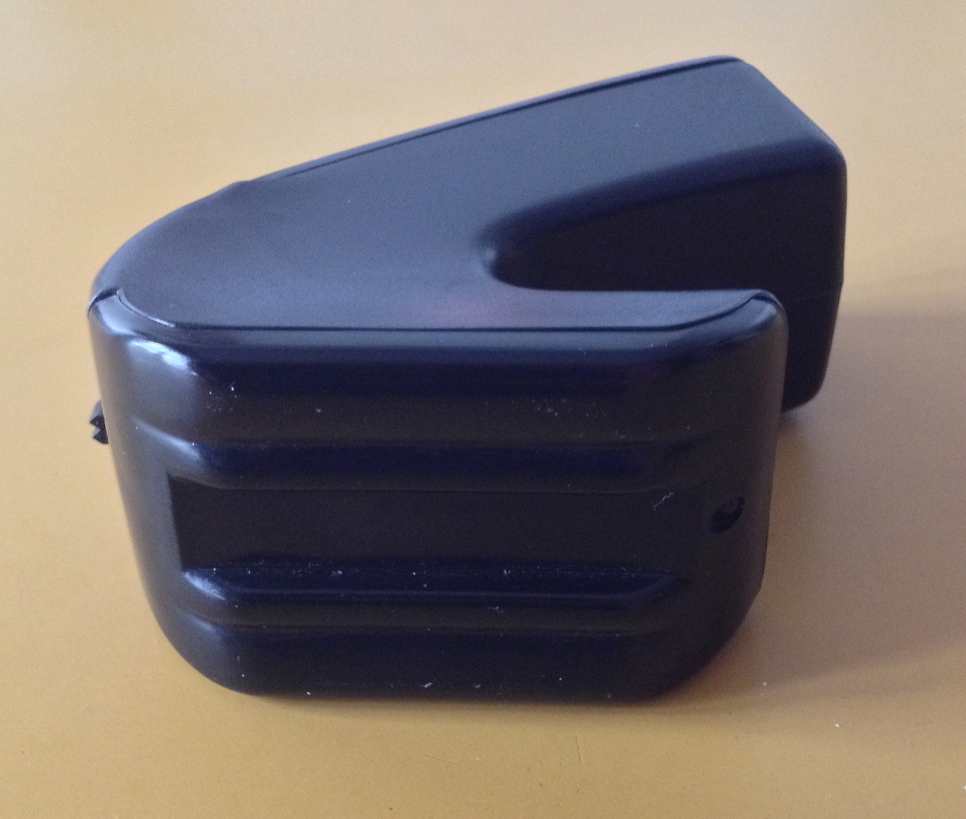 EBow, bottom side with guide grooves